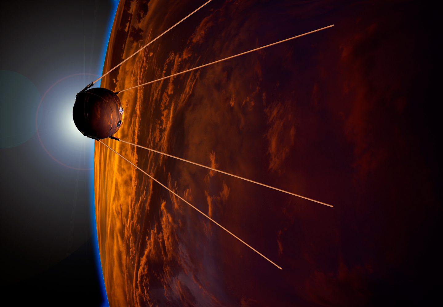 Created to mark the 50th Anniversary of the launch of Sputnik